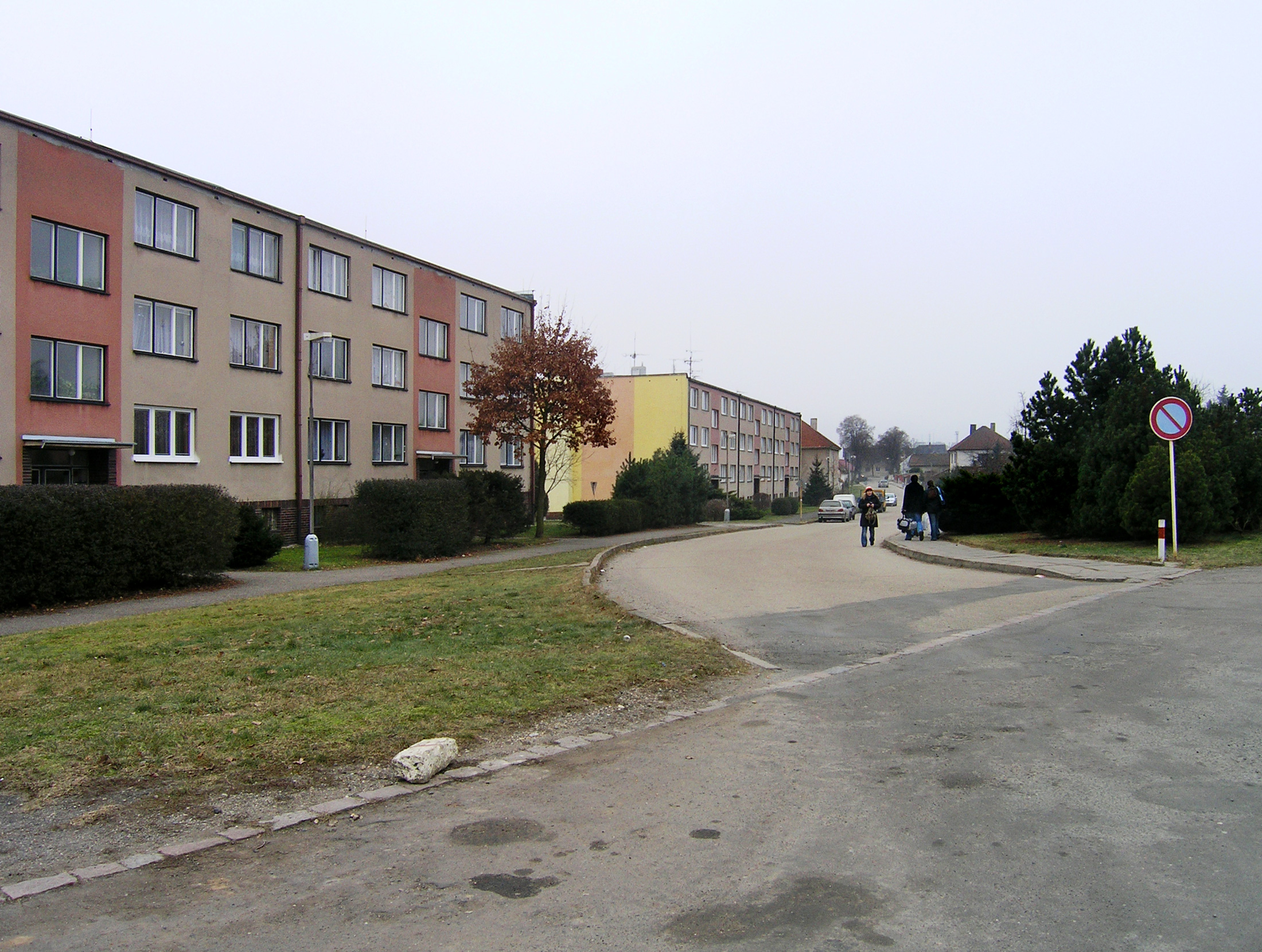 Lipová street in Poříčany, Czech Republic